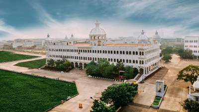 Administrative building of the Sathyabama university